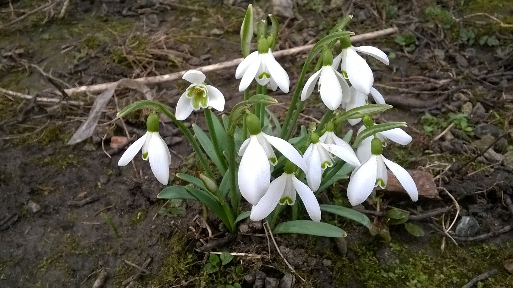 Galanthus nivalis